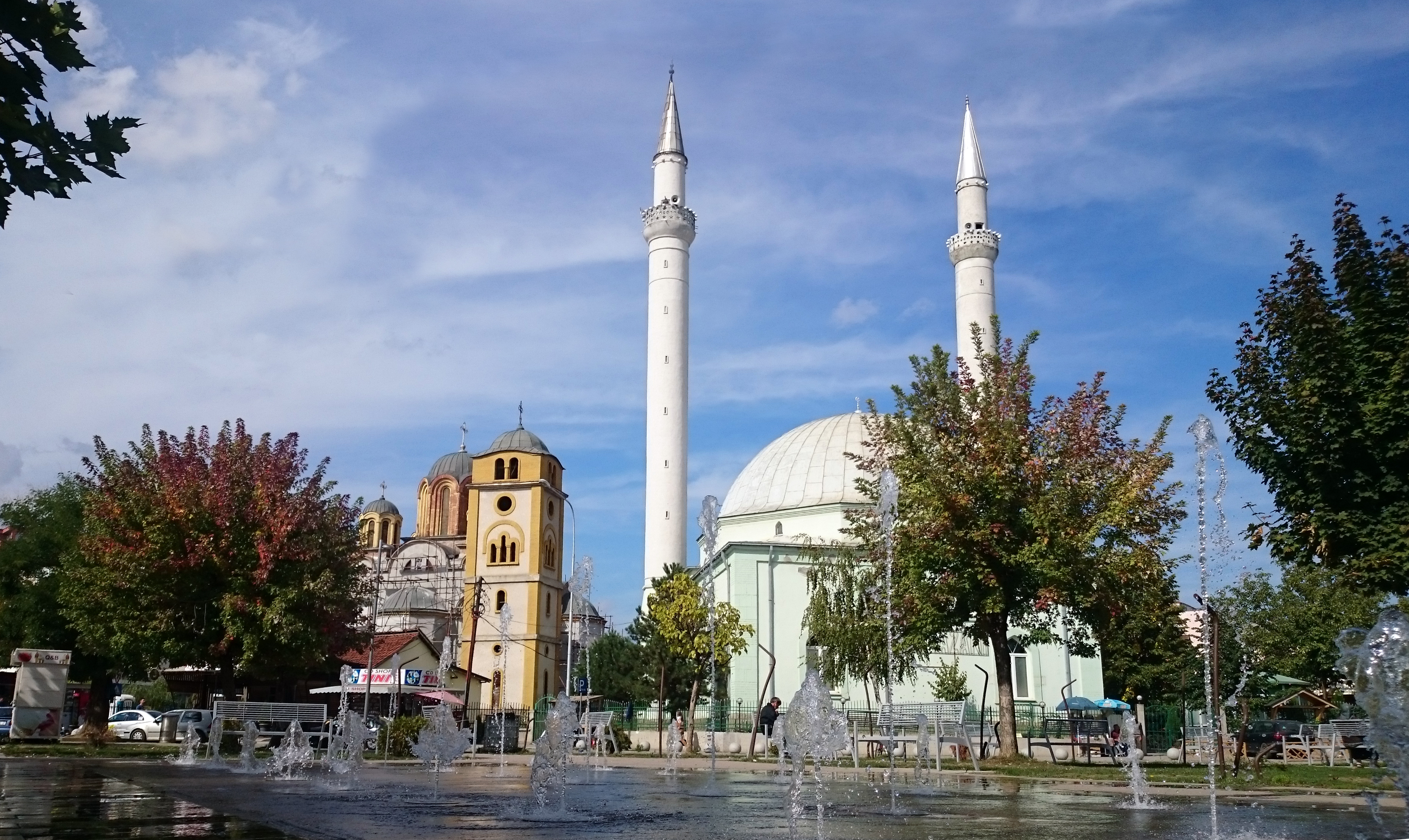 Complex of Buildings: Church and Mosque, FerizajShqip: Kompleksi i ndërtesave : Xhami dhe Kishë Orthodokse